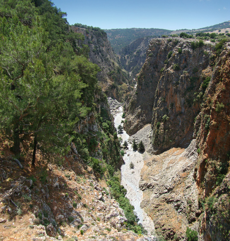 Aradaina Gorge, Crete, Greece.